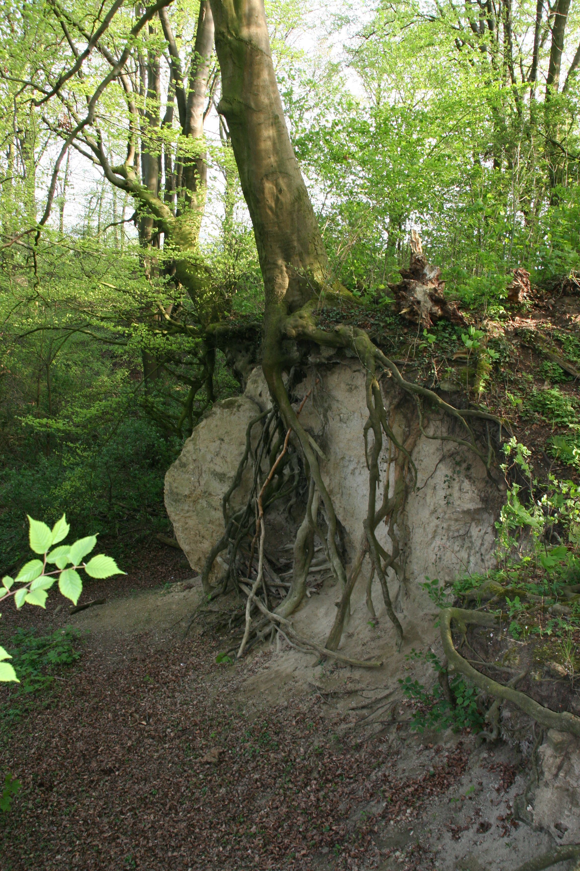 Belm: old marl-mine